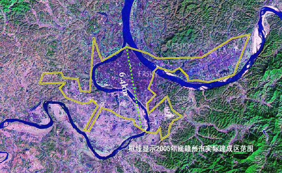 Sat Img of Ganzhou City(JX Prov.,CHN)